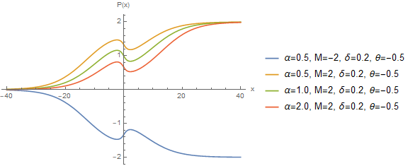 Hyperbolastic Type I with negative theta values.